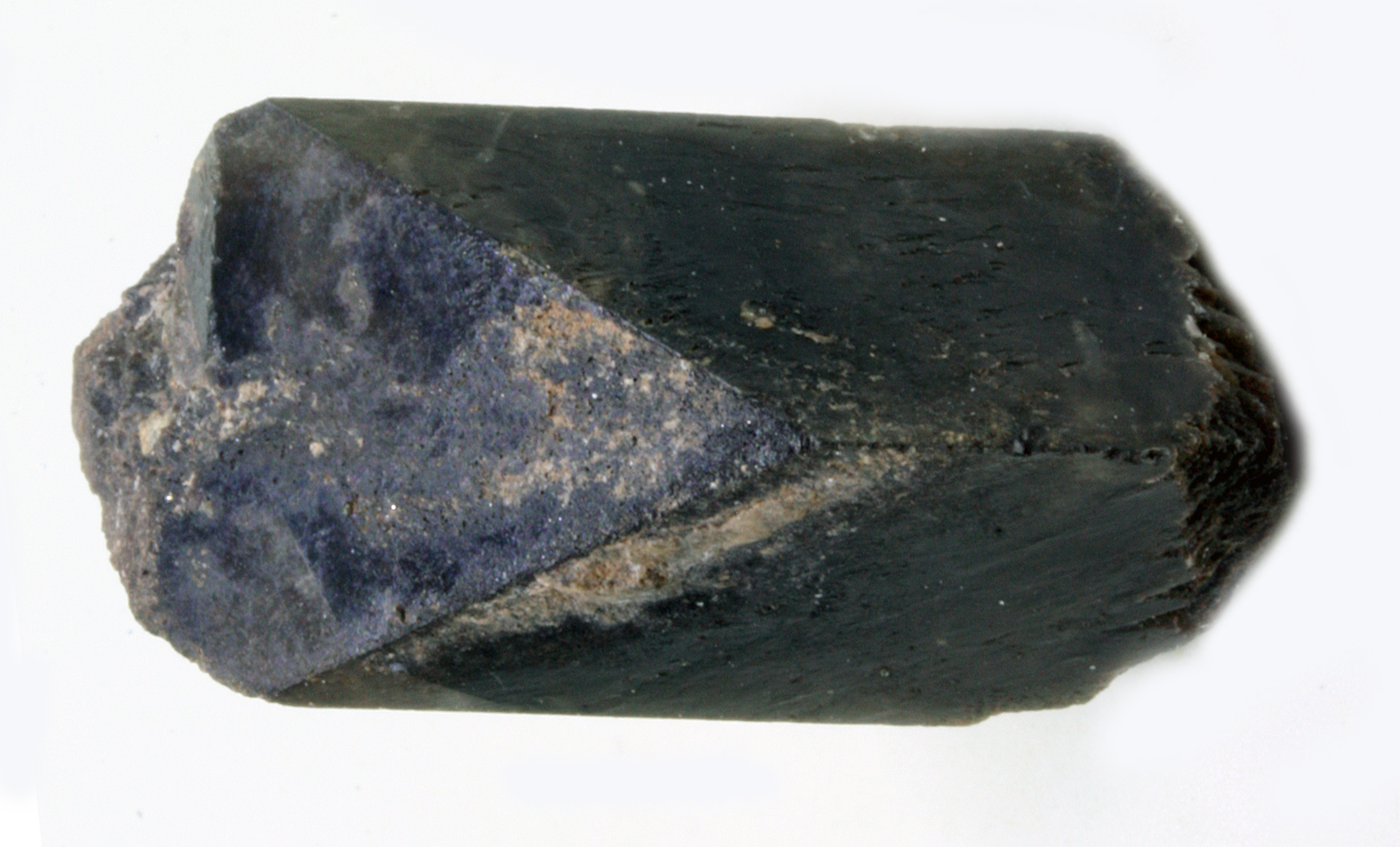 Dolomita var. teruelite crystal. Domeño, (Valencia), Spain